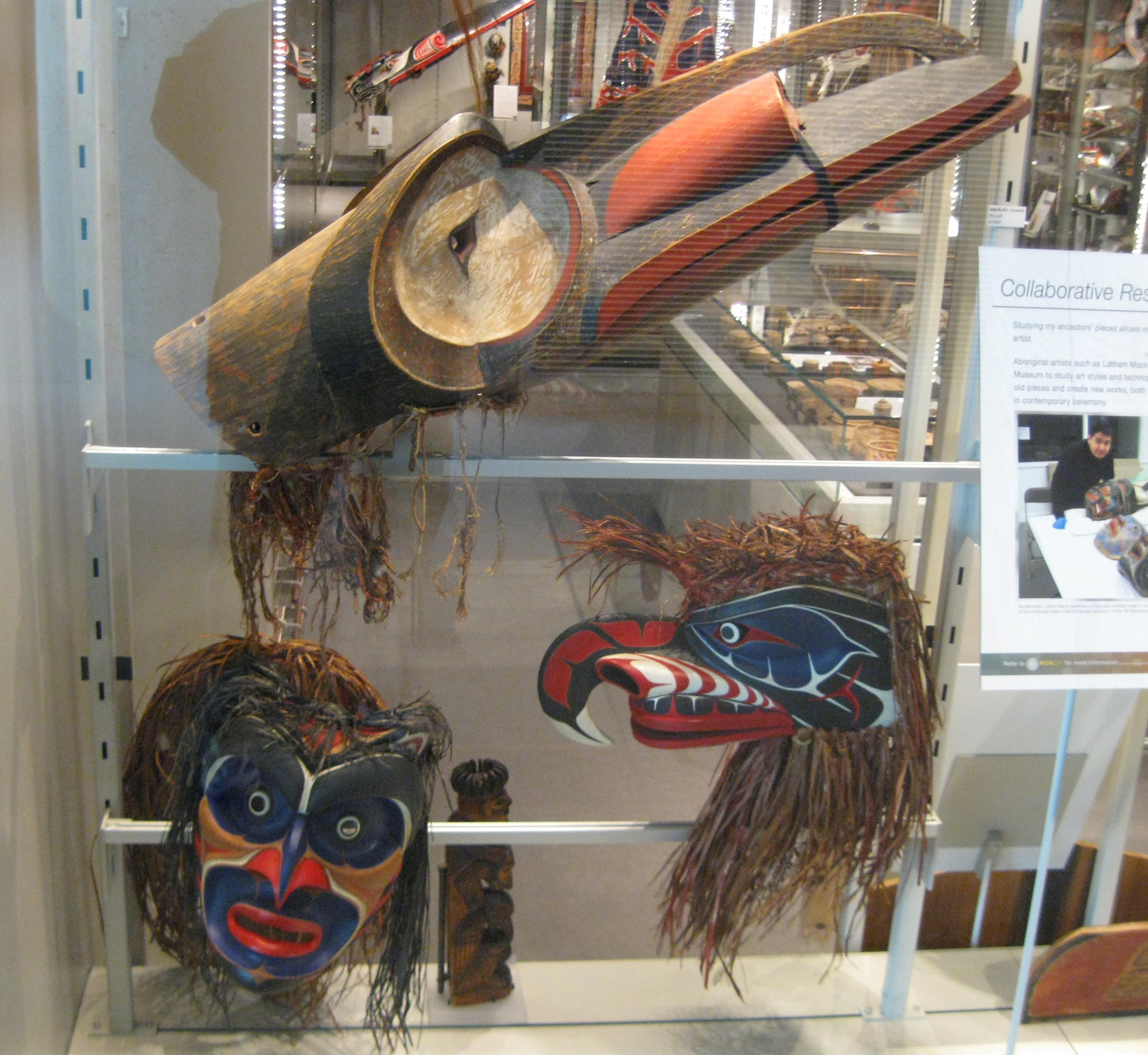 This is a set of Canadian native Indian Nuxalk masks or "SquXsEn." (as the museum display gives this name) It is today part of the collection of the UBC Museum of Anthropology in Vancouver, Canada.